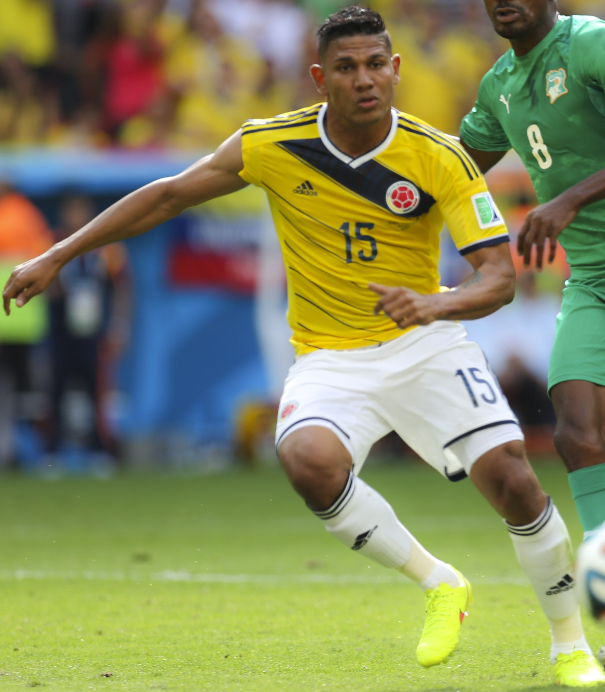 Alexander Mejía in Colombia and Ivory Coast match at the FIFA World Cup on June 2014.